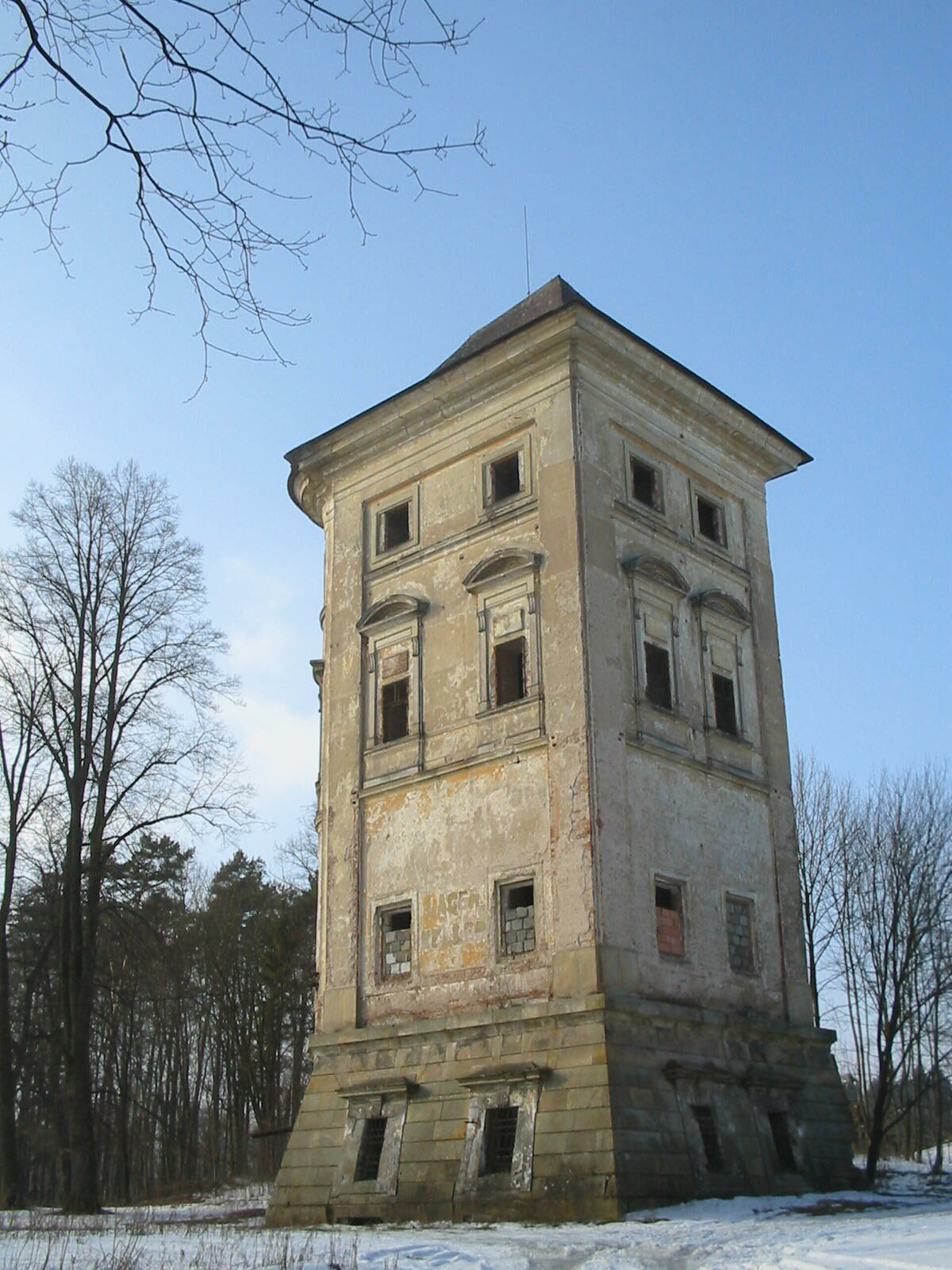 Author: Petr Machacek